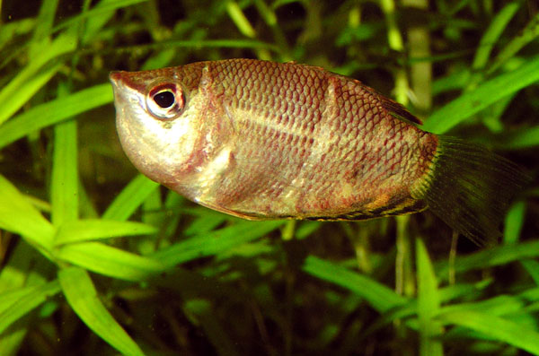 Mouth-breeding female Sphaerichthys osphromenoides